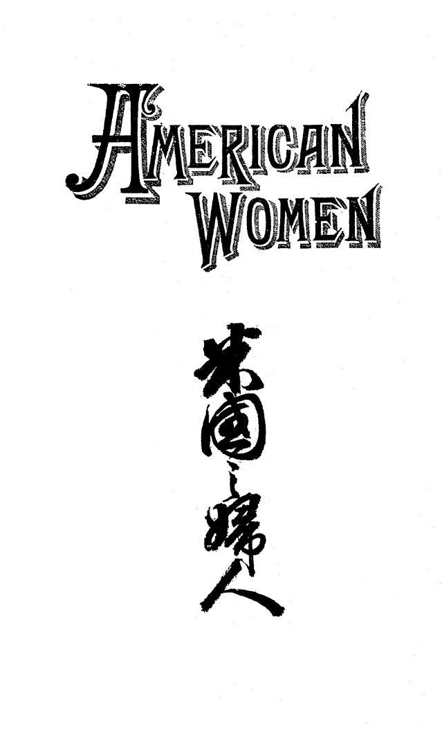 AMERICAN WOMEN